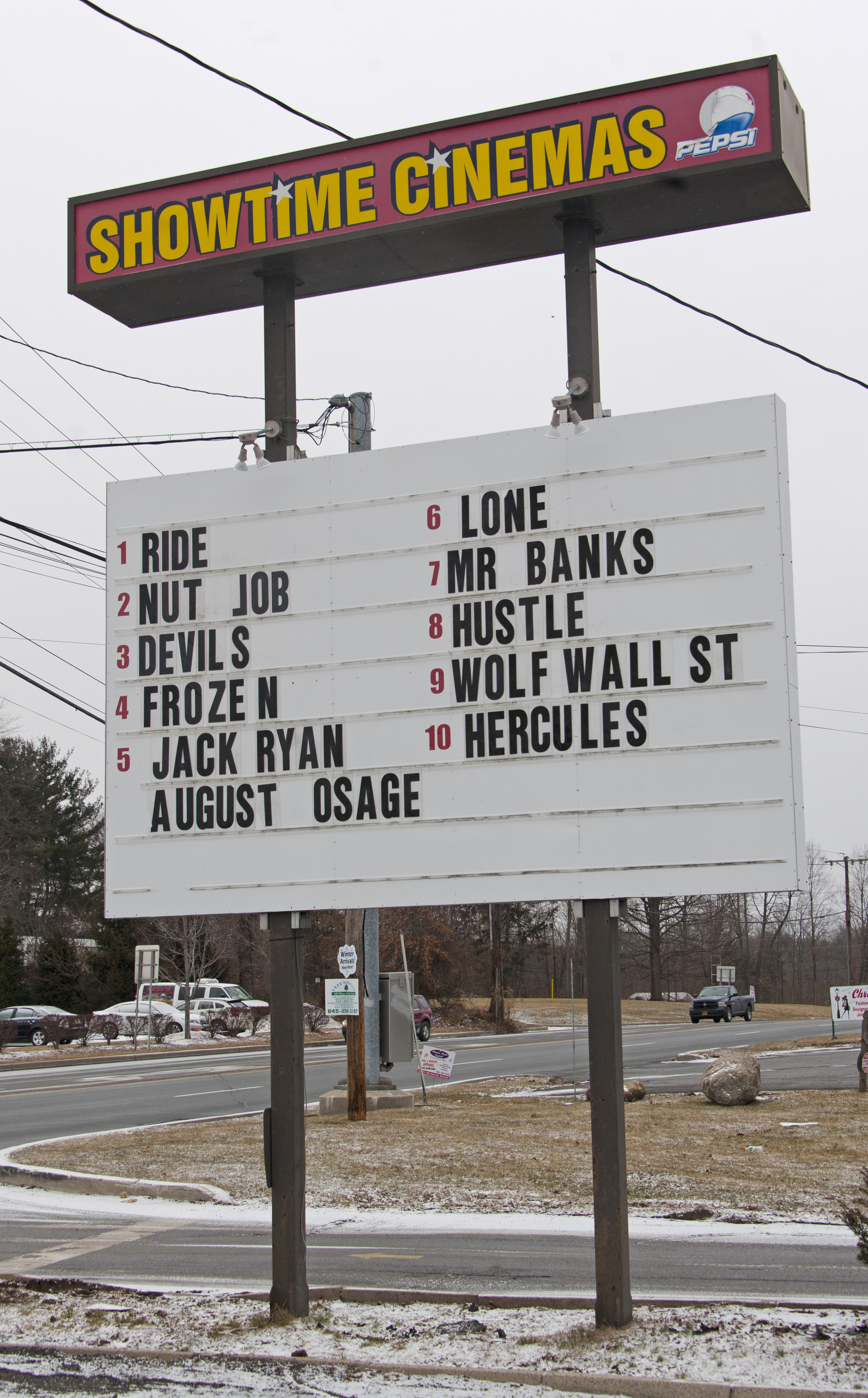 Movie marquee at entrance to Showtime Theatres along NY 300 in Newburgh, NY, USA. Films include a mix of critically-acclaimed Academy Award nominees at the time like August: Osage County, The Wolf of Wall Street, Saving Mrs. Banks and American Hustle and continued end-of-year hits like Frozen with releases typical of that "dump months" period such as Devil's Due, Ride Along, The Nut Job, Lone Survivor, Jack Ryan: Shadow Recruit, The Legend of Hercules.